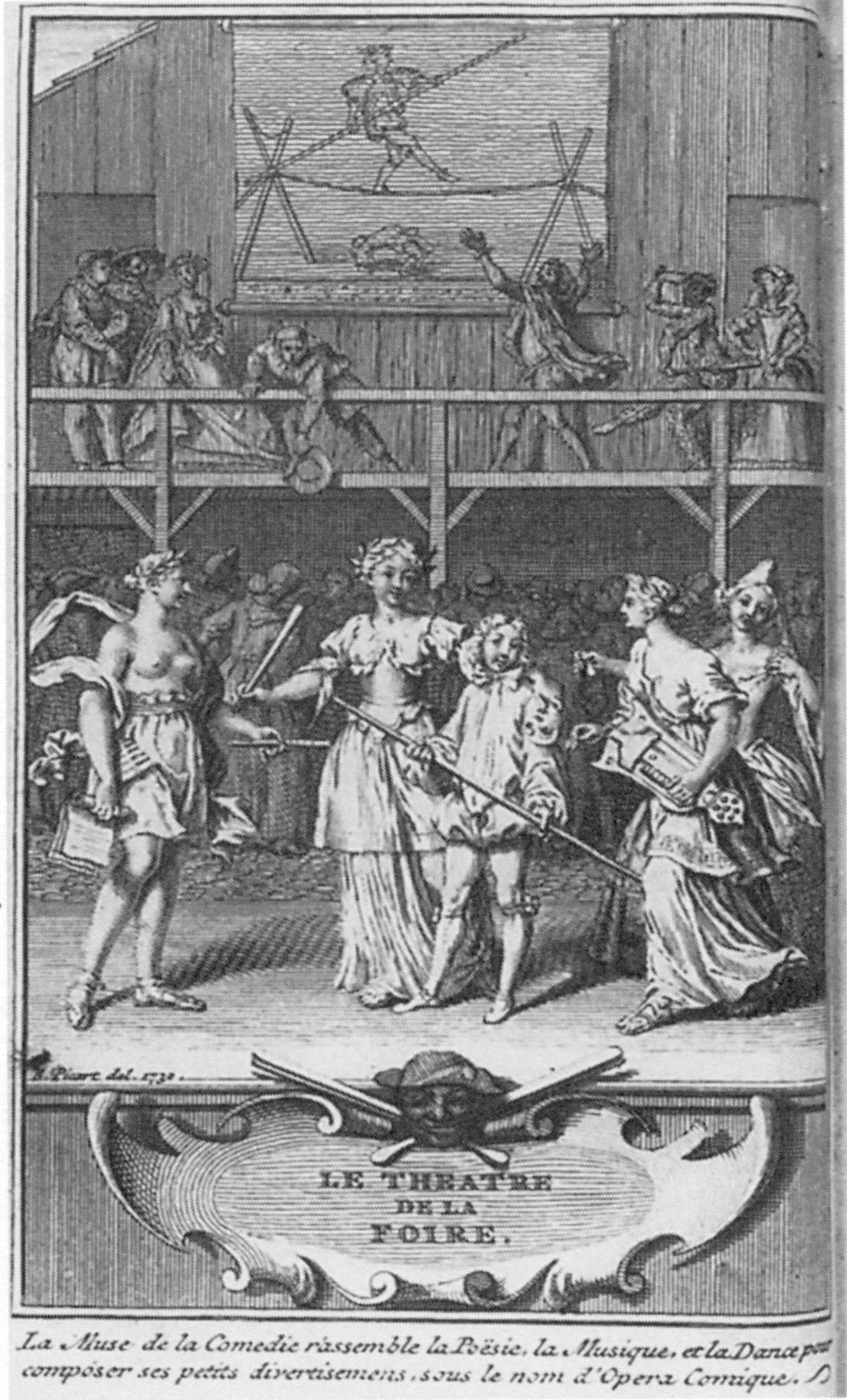 Frontispiece for Le théâtre de la foire by Le Sage and D'Orneval. The caption reads: "The Muse of Comedy [Thalia] brings together Poetry, Music, and Dance to form little entertainments under the name of Opéra Comique." On the balcony above the muses can be seen the commedia dell'arte stock characters Pierrot (leaning over the railing with his hat off), Harlequin (in characteristic motley costume and his leg raised), and other players. Scaramouche gestures toward a banner depicting a rope dancer and below him, an acrobat in a back bend.